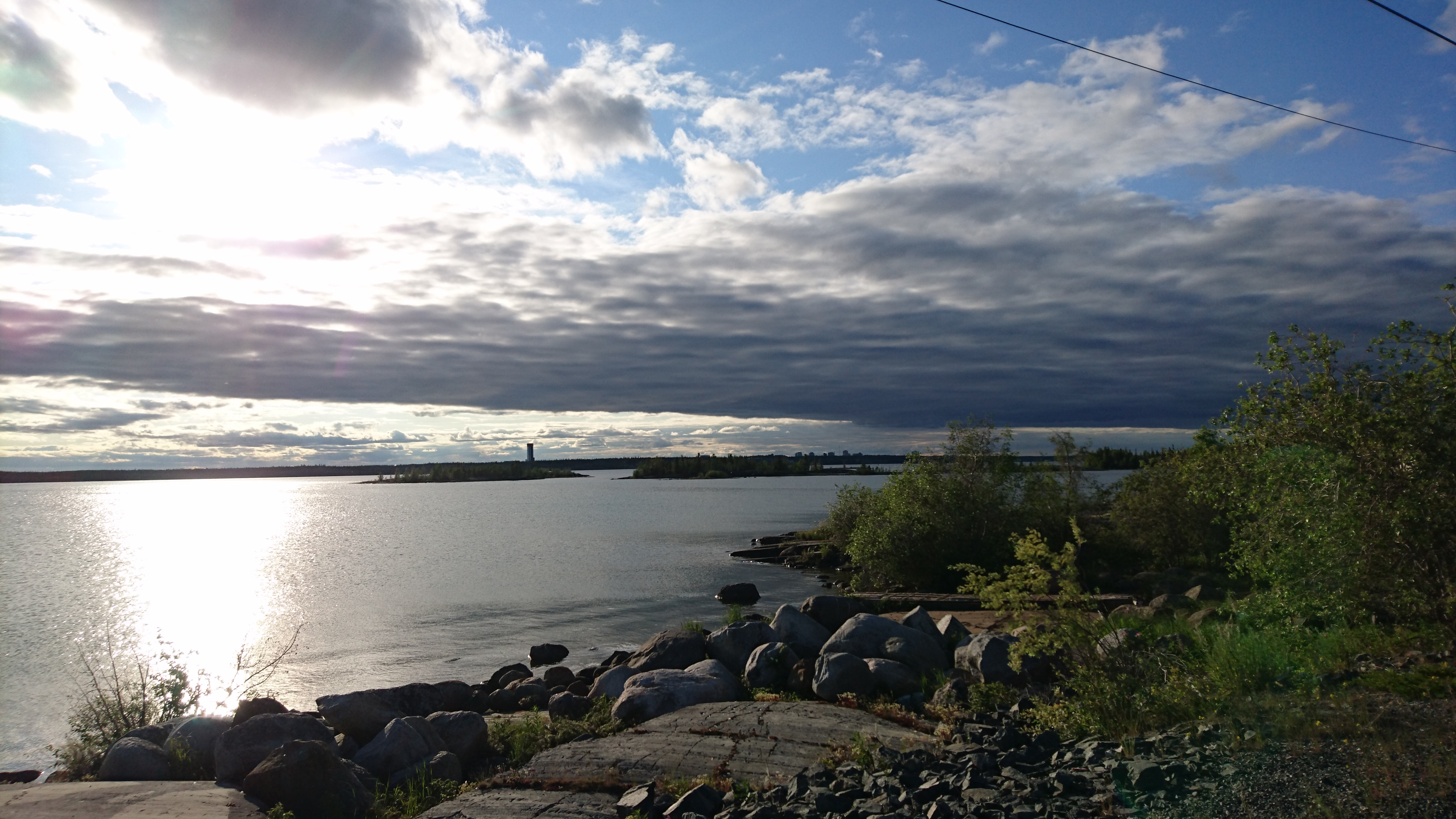 Looking towards Yellowknife from Dettah